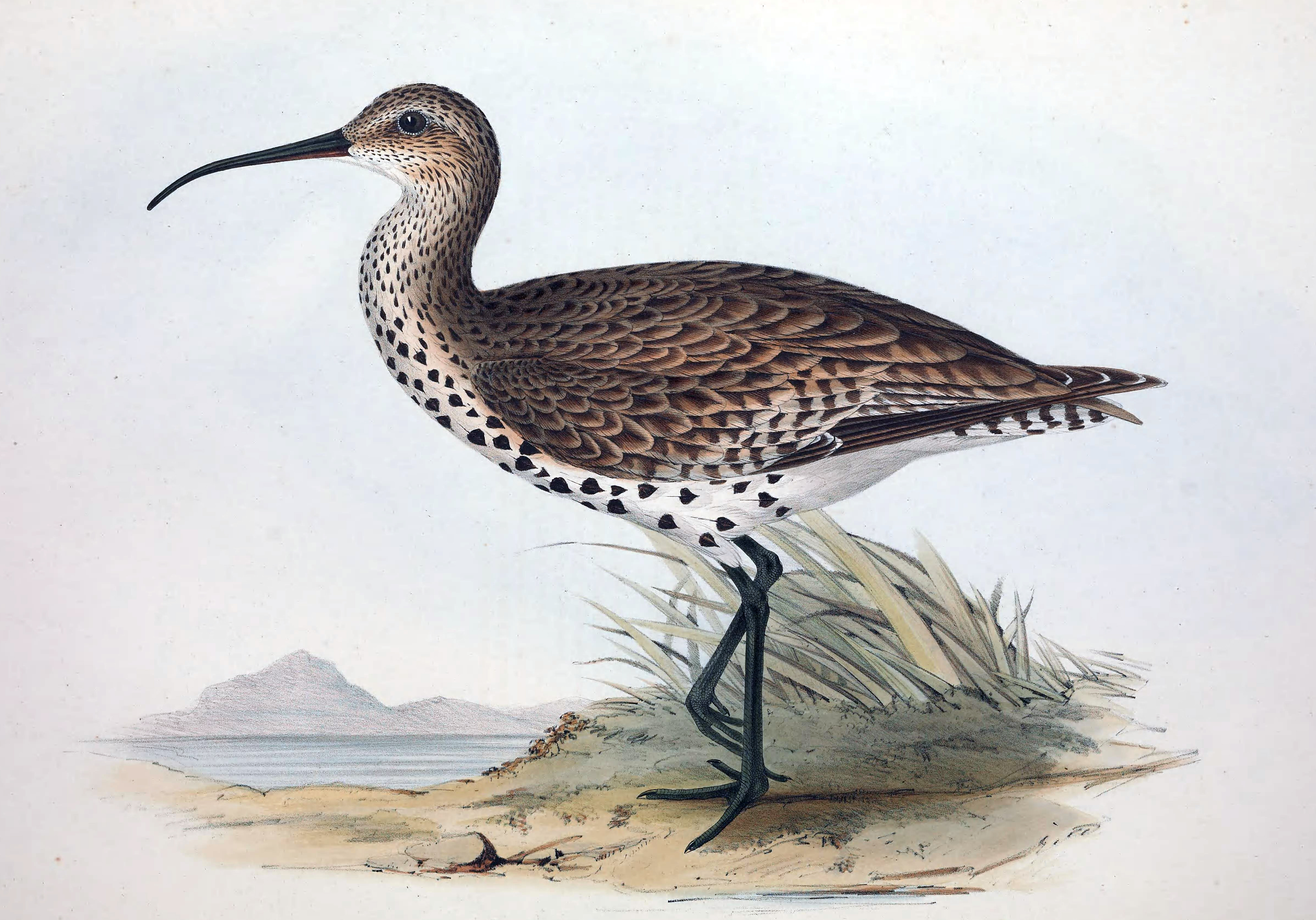 From The Birds of Europe, Plate 61, Volume 4, 1st Ed. (1832-1837) by Elizabeth Gould & Edward Lear, Circa 1830.